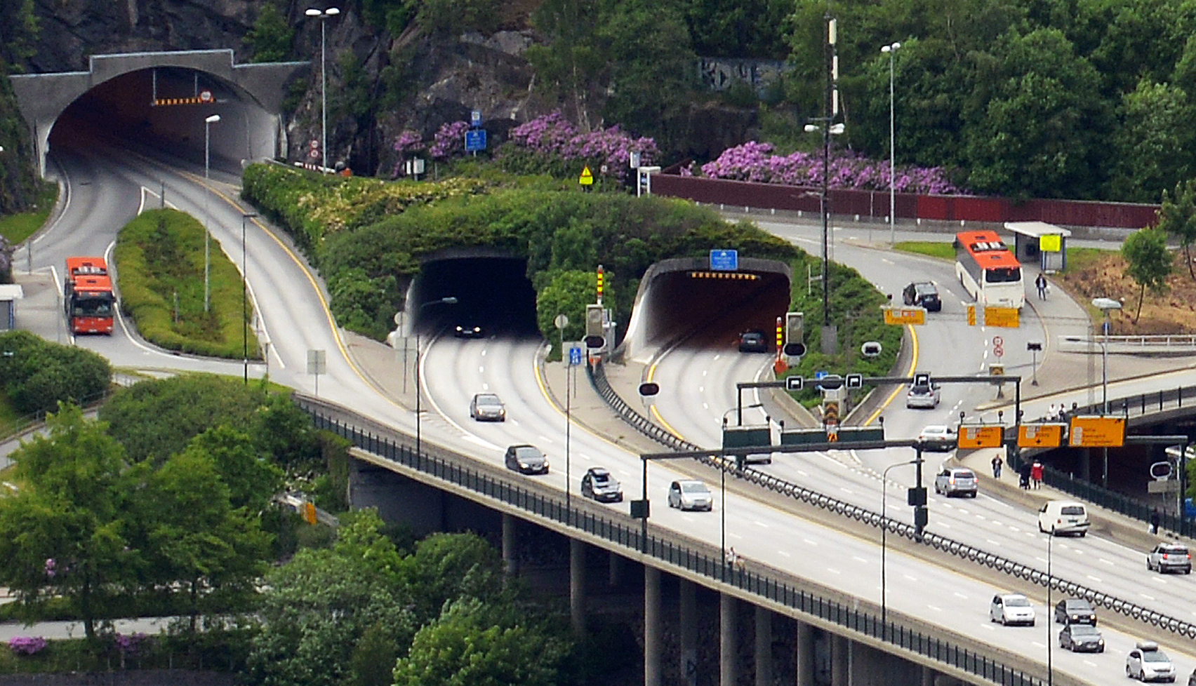 From the top of Fløyen or Fløyfjellet, one of the seven mountains that surround the city centre of Bergen / Entrance to the Løvstakk Tunnel and the Damsgård Tunnel (Damsgårdstunnelen) - about 4.4 km through Damsgårdsfjellet from Lyngbø to Gyldenpris in Bergen